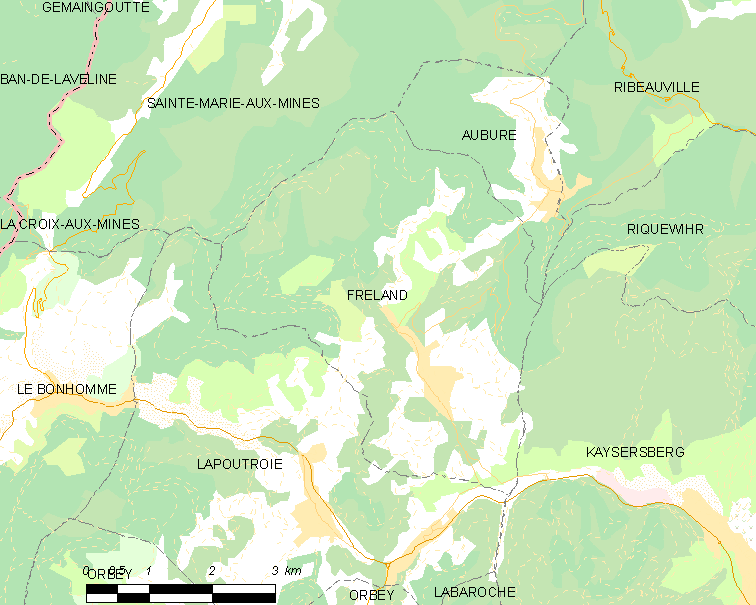 Map of French municipality